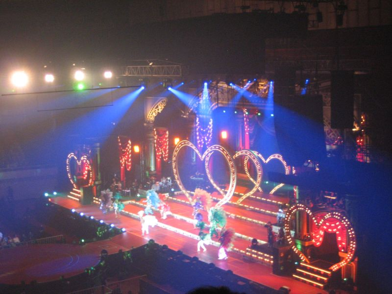 During a medley of oldies